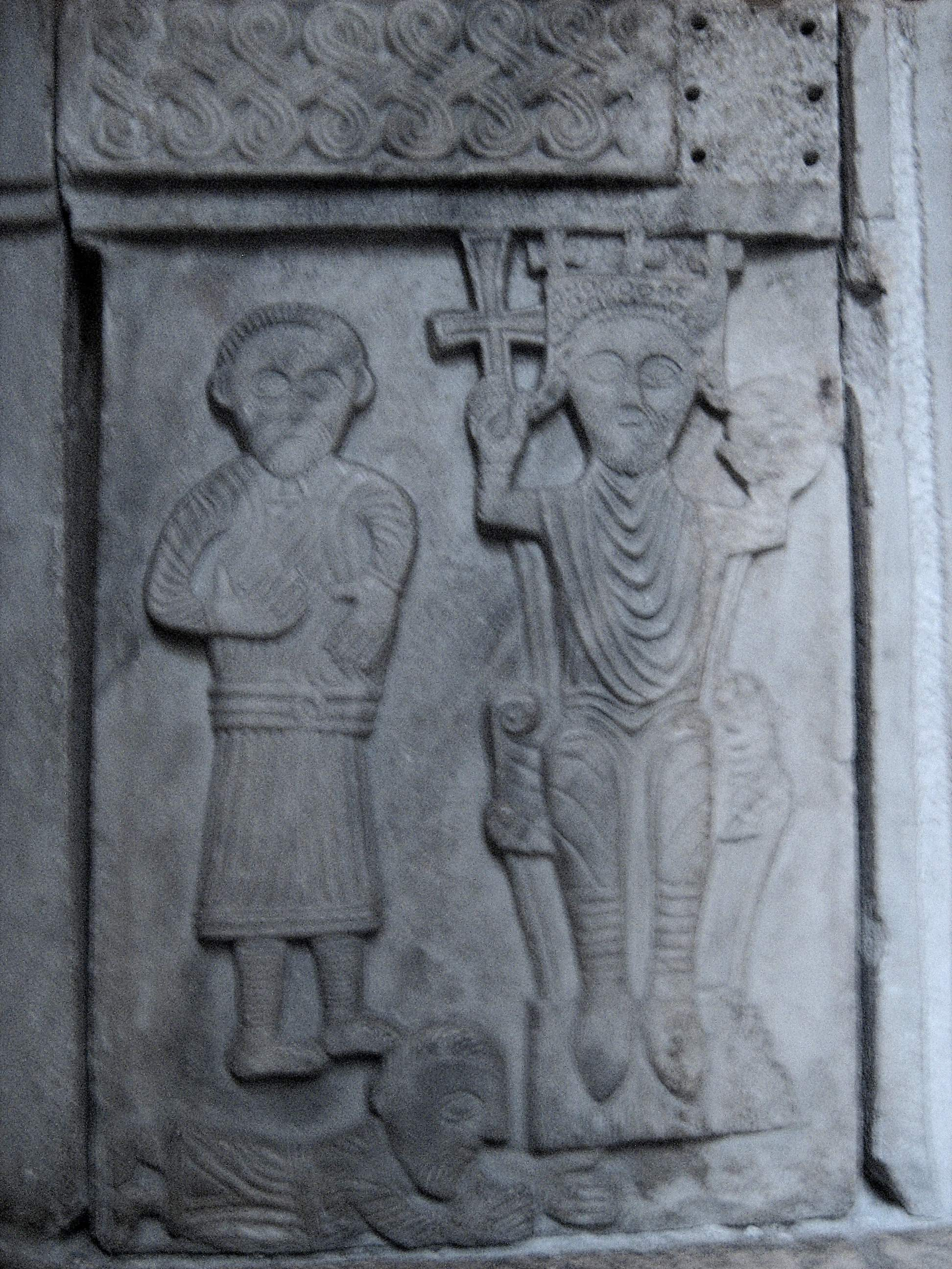 Pluteus located in the baptistery of St John in Split, Croatia. Marble, 104 x 63 cm; produced by the Split-Zadar workshop.